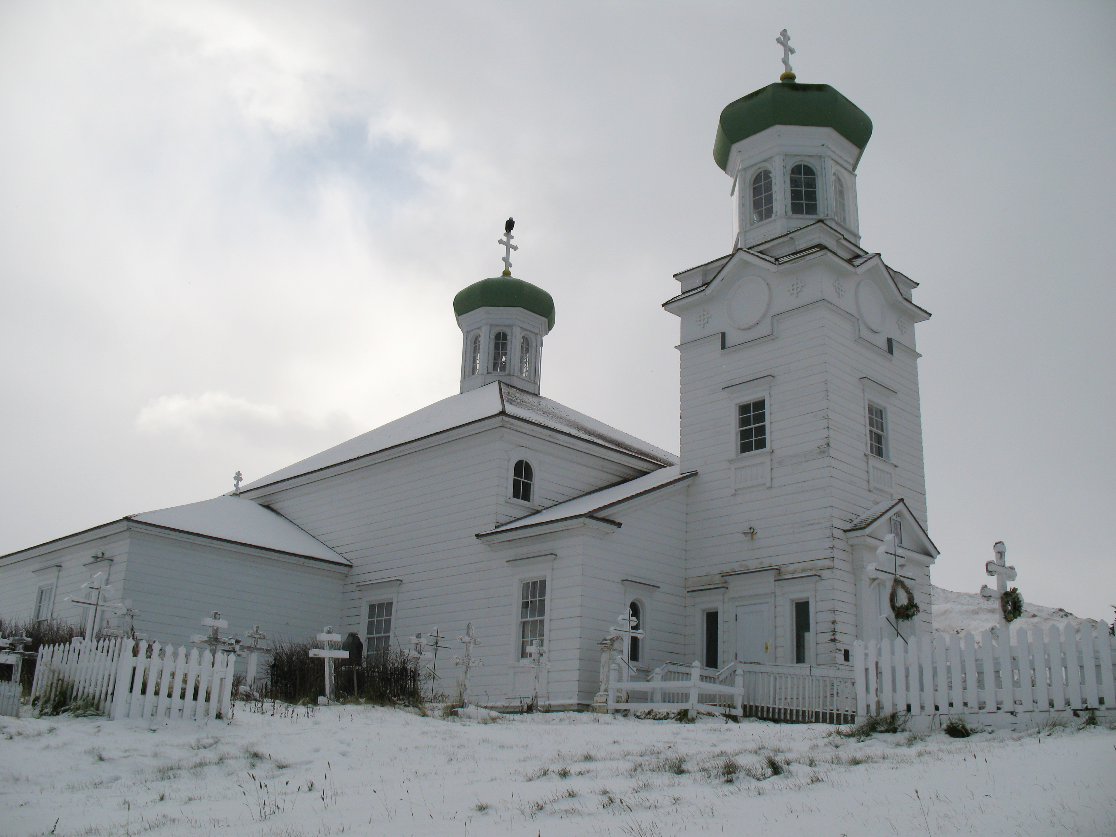 Holy Ascension of Our Lord Russian Orthodox Church, Unalaska, Alaska